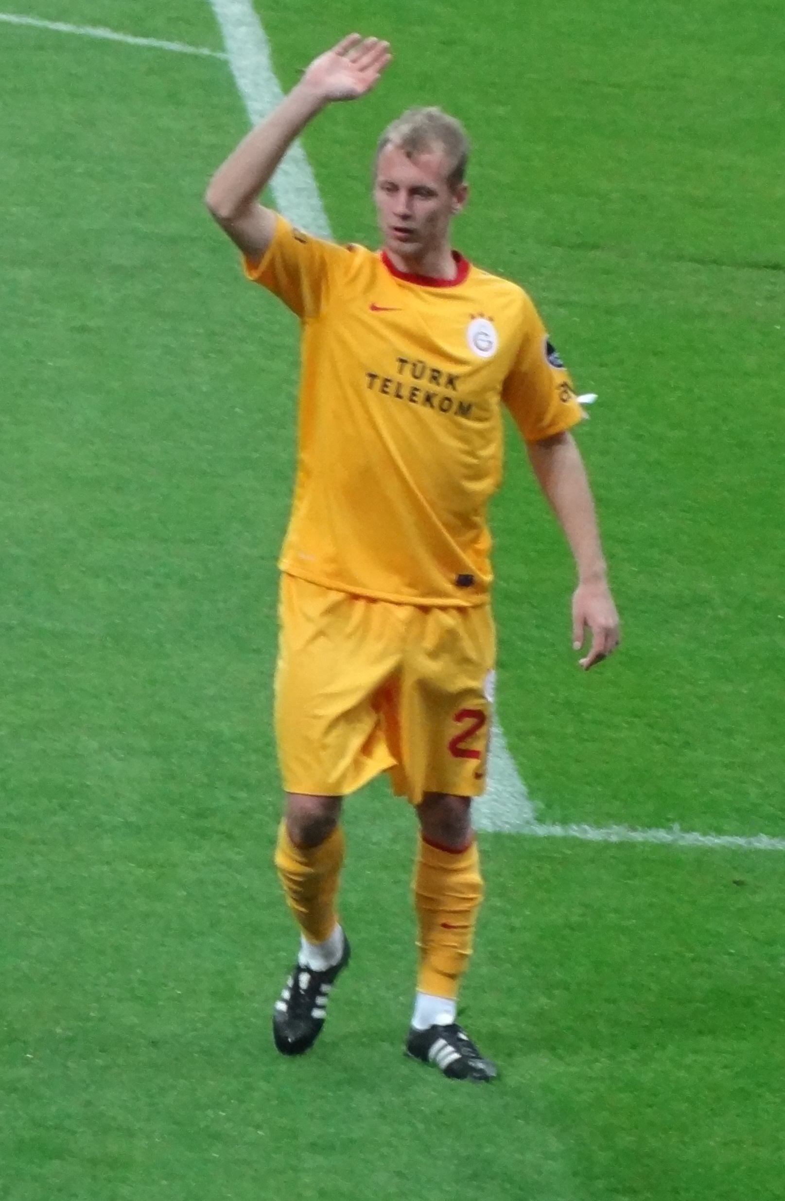 semih kaya playin for galatasray against sivasspor